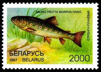 Stamp of Belarus